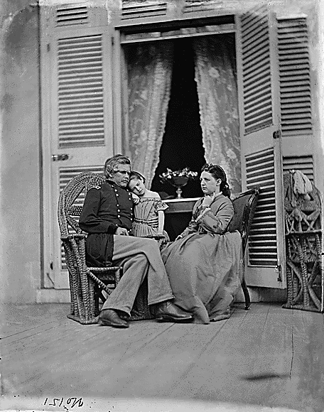 Photograph of United States General Edward O. C. Ord and his family.